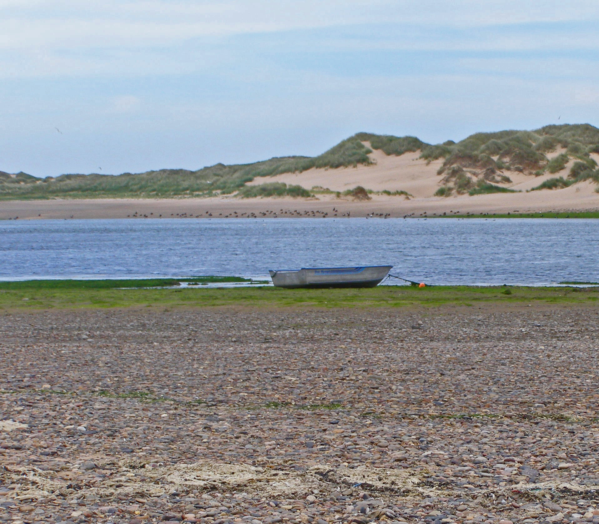 Photographer:self